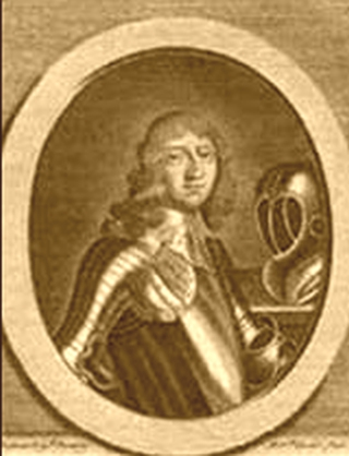 Thomas Harrison (1606 - 1660).